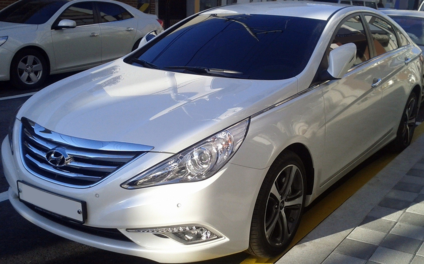 Hyundai Sonata